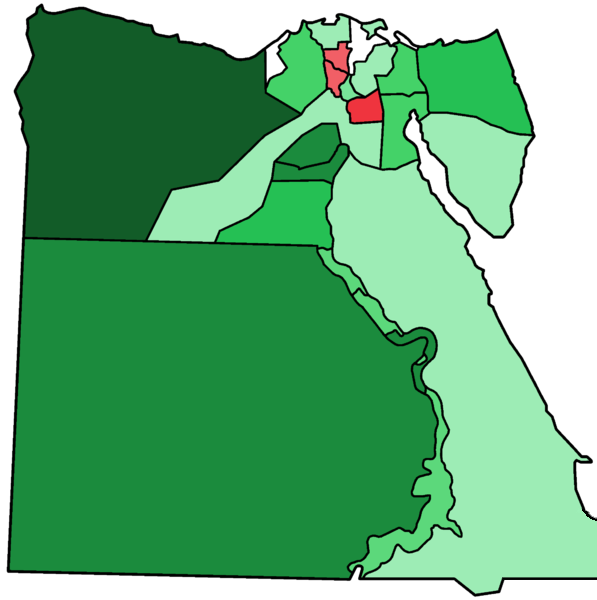 Egyptian constitutional referendum